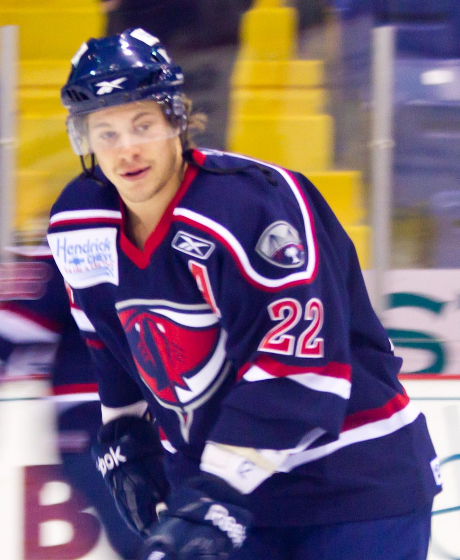 Maxime Lacroix with the South Carolina Stingrays in 2010 during a game vs. the Reading Royals.